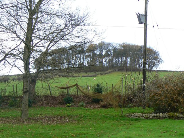 Tree-crowned fort A copse of trees growing on top of a hill with a prehistoric fort. There is also the site a Roman fort a few metres north of these trees.